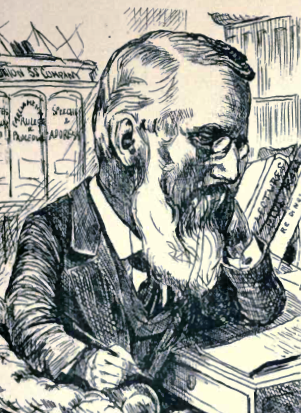 Sir Thomas Ekins Fuller. Cape Colony politician and editor of the Cape Argus newspaper. From a caricature by WH Schroder.